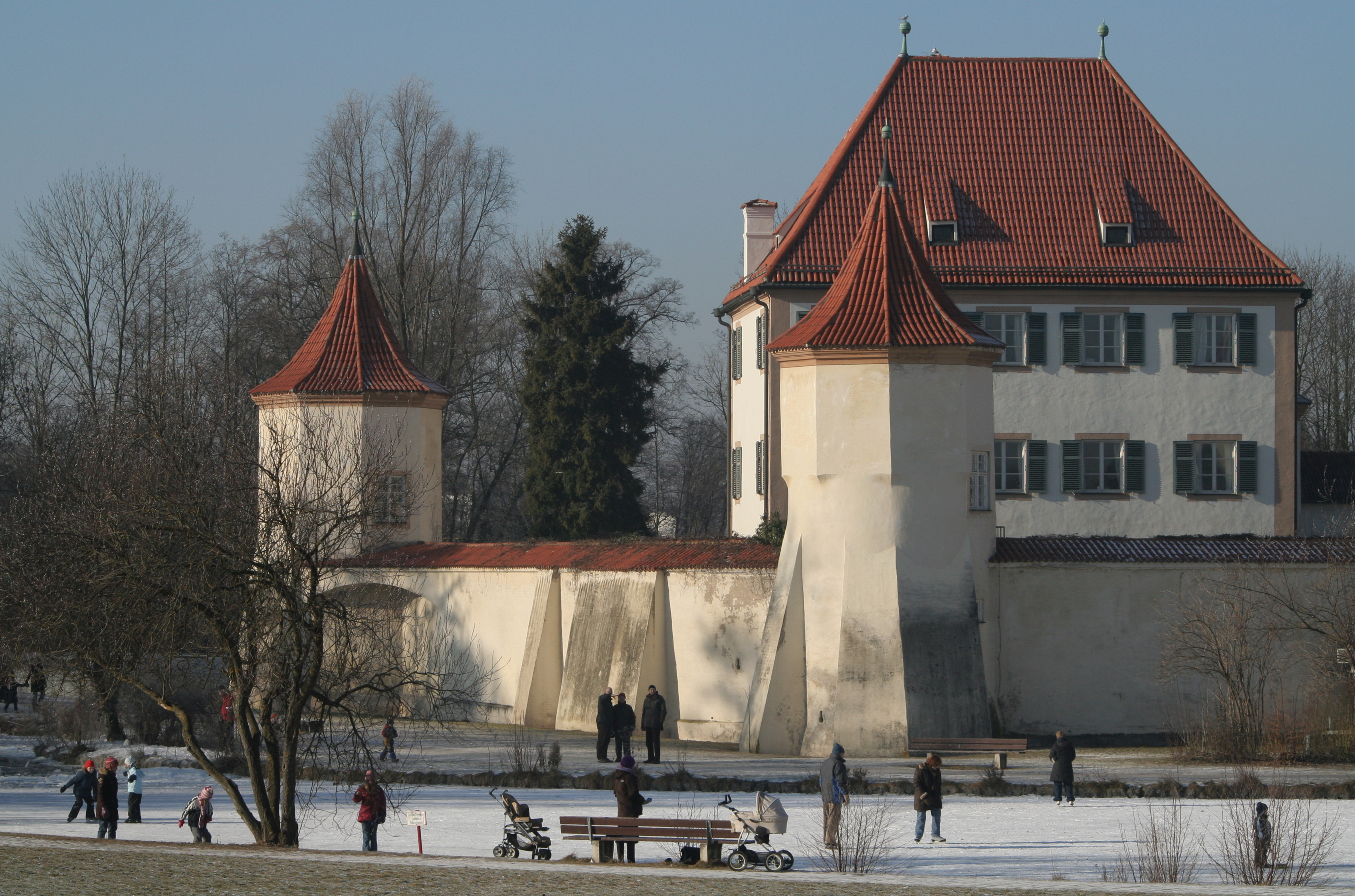 Schloss Blutenburg in winter